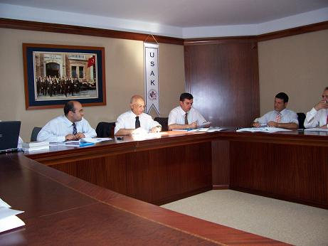 USAK Workshop, Terrorism Studies, ISRO International Strategic Research Organization USAK Ankara